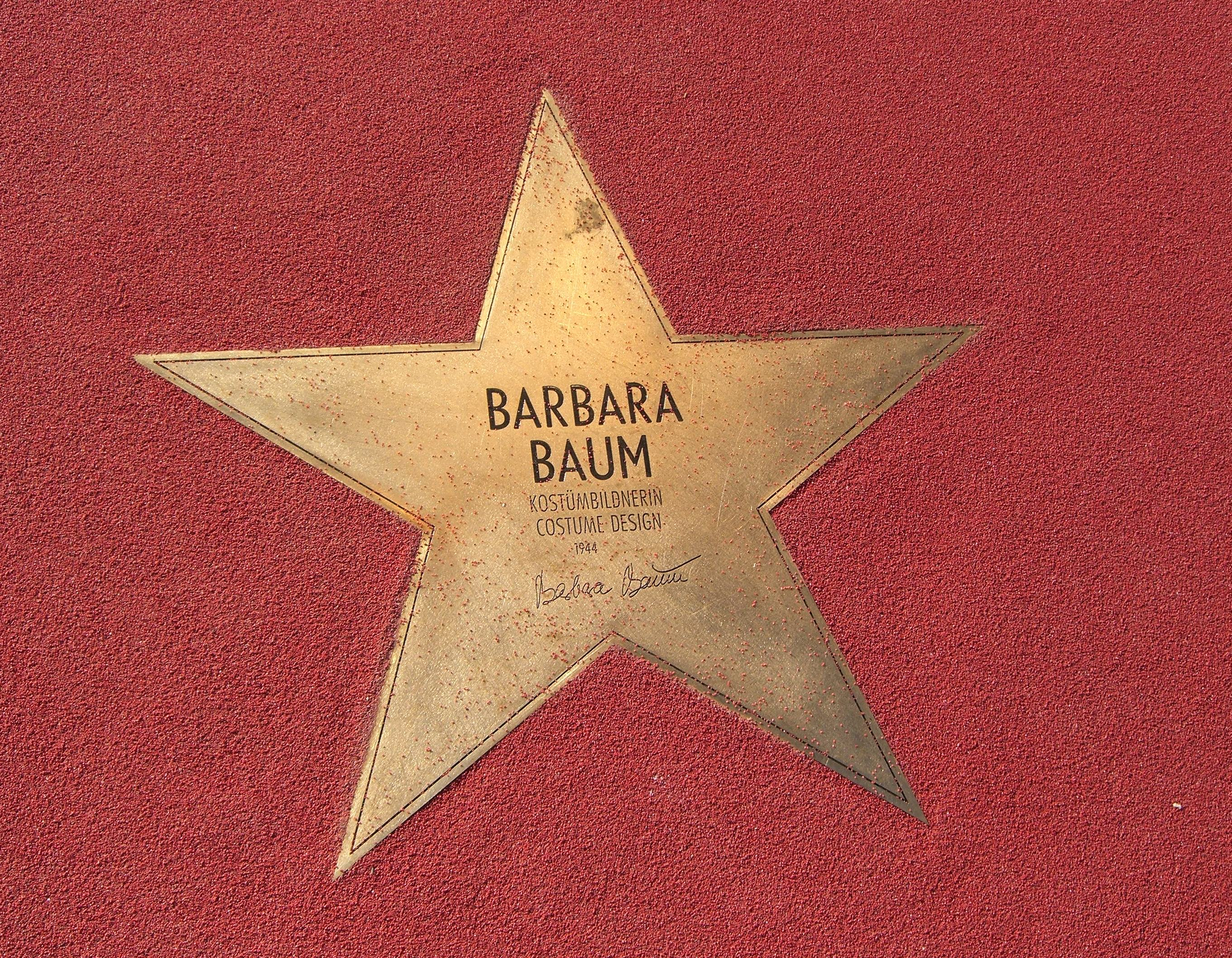 Star of Barbara Baum at "Boulevard der Stars" in Berlin.